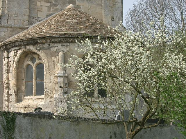 Church Saint-Martin of Breny, Aisne departement, France. XIIth century. Roman apse view.